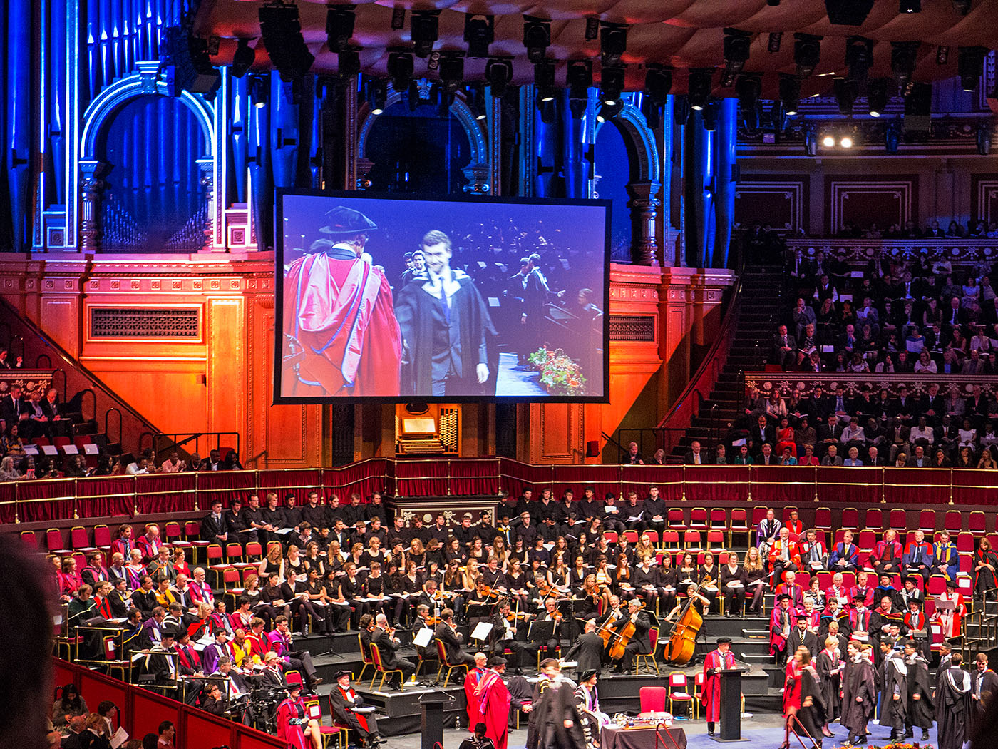 Imperial College London Commemoration Day 2014